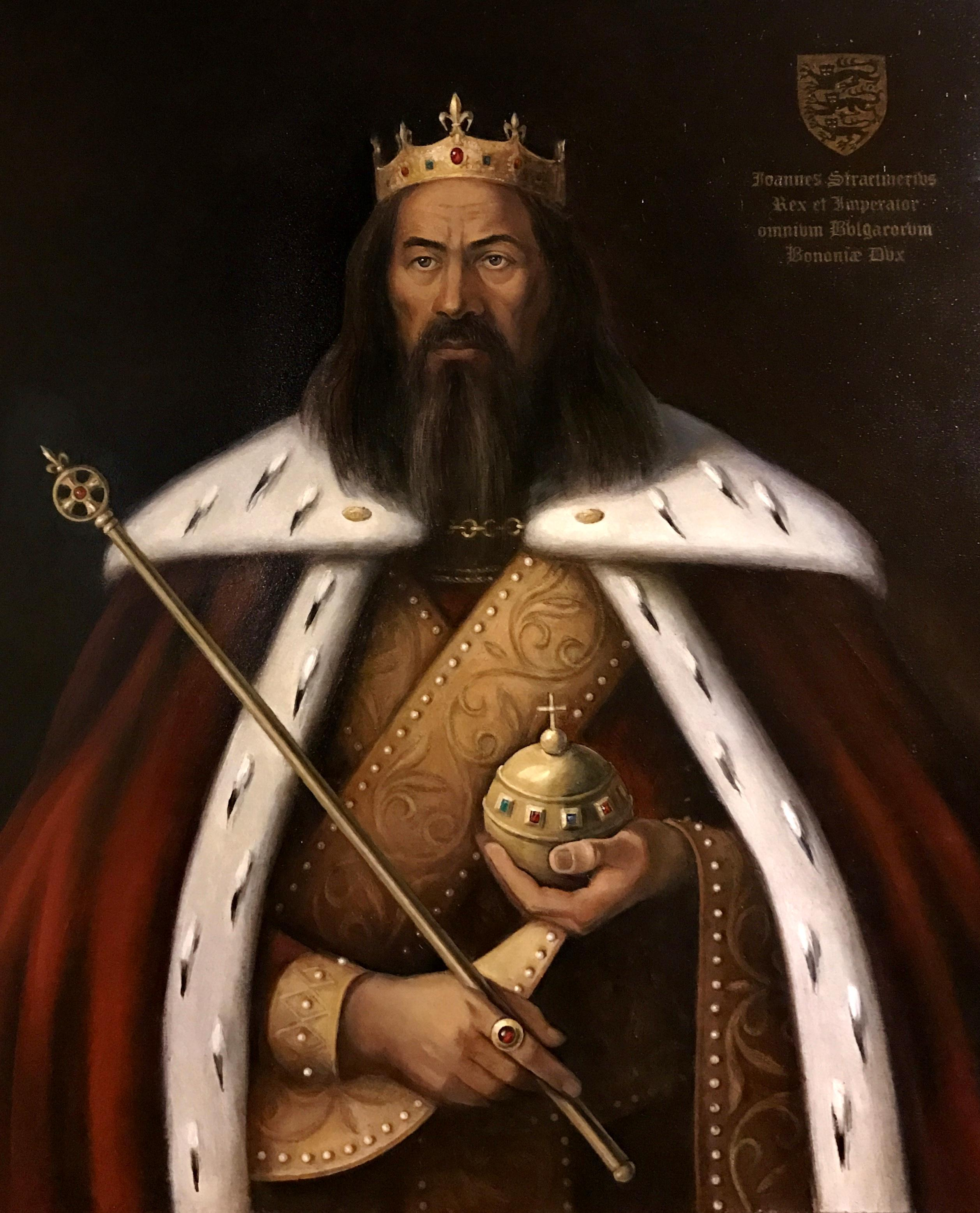 Tsar Sratsimir of Bulgaria, painting by anonymous author, late XIX century, Sofia Art Gallery.